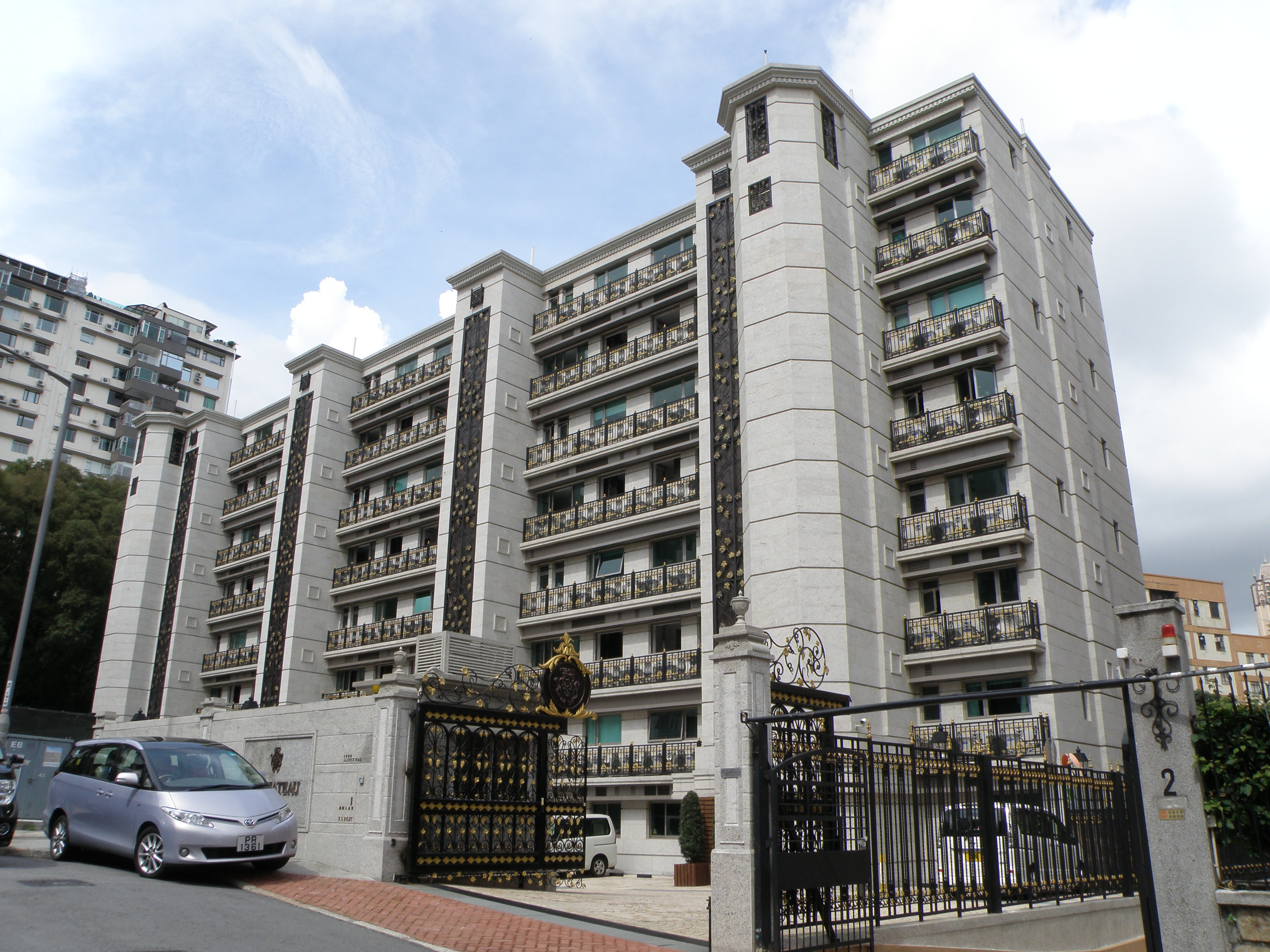 Le Chateau in Beacon Hill, Hong Kong.